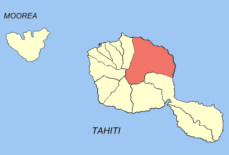 Map of Tahitian communes — Hitia’a ’o te Ra